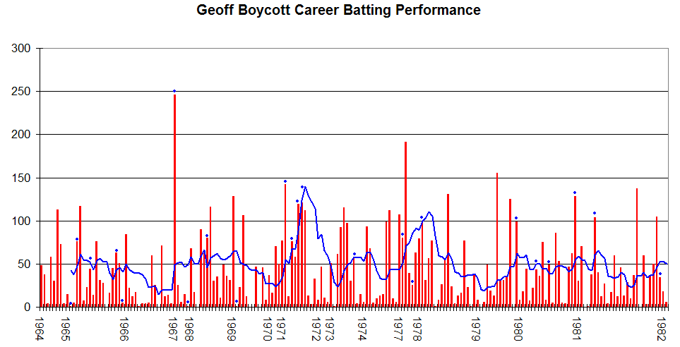 This graph details the Test Match performance of Geoff Boycott. It was created by Raven4x4x. The red bars indicate the player's test match innings, while the blue line shows the average of the ten most recent innings at that point. Note that this average cannot be calculated for the first nine innings. The blue dots indicate innings in which Boycott finished not-out. This graph was generated with Microsoft Excel 2002, using data from Cricinfo and .au.